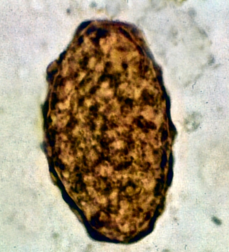 An infertile egg of Ascaris lumbricoides in human feces. The magnification is at about 400x and the specimen has not been stained.